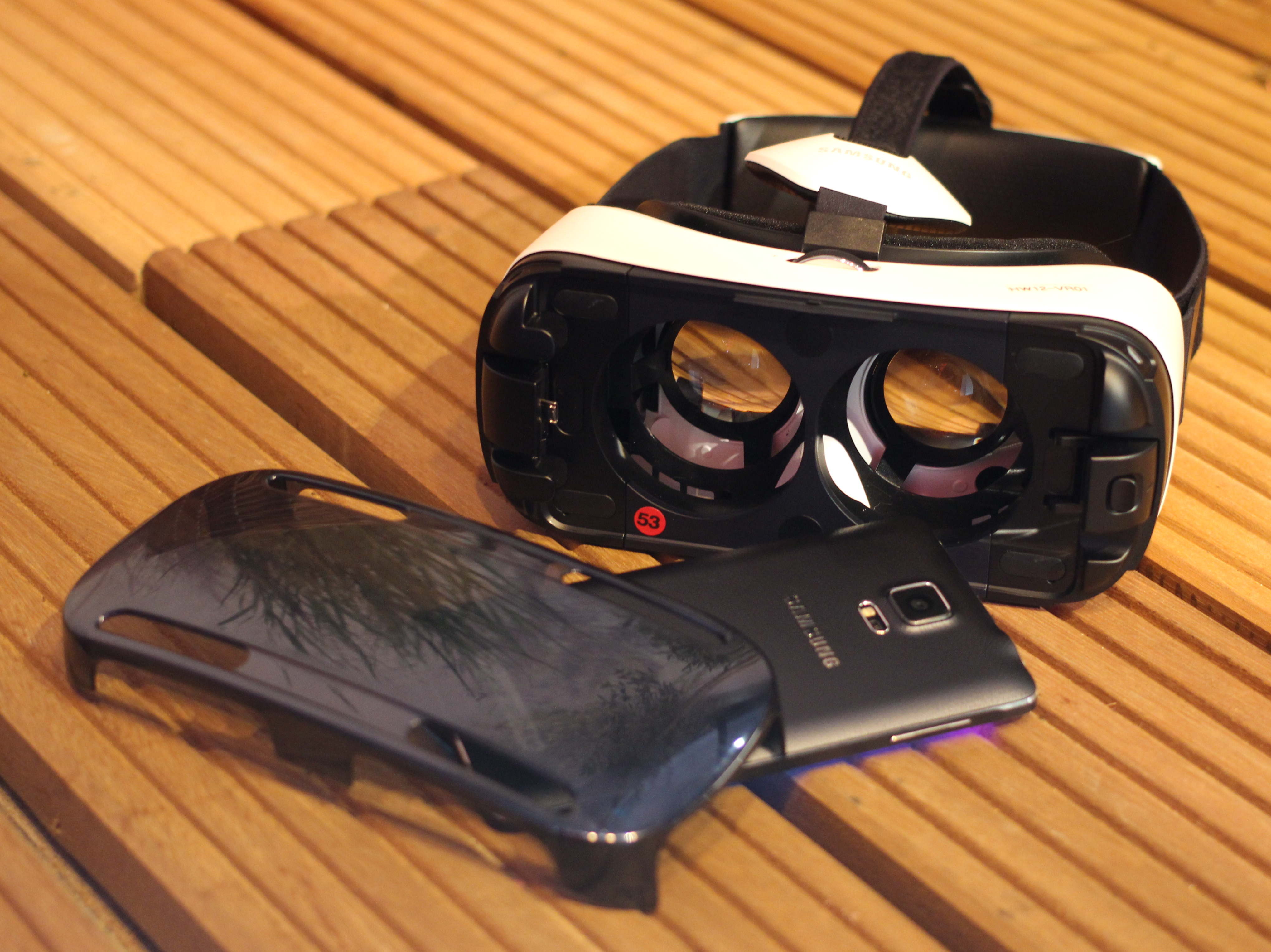 A Samsung Gear VR headset with the front cover and the phone removed.